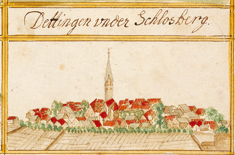 View of Dettingen unter Teck from the forest register books created by Andreas Kieser